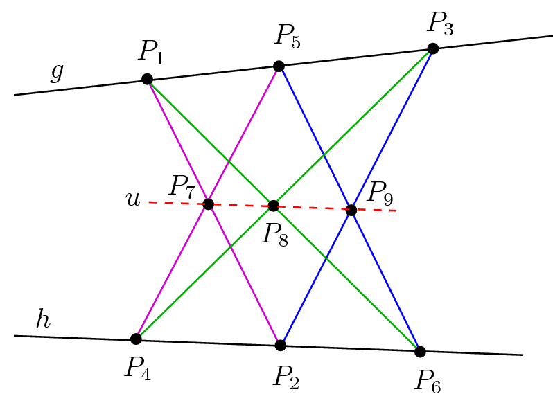 Theorem of Pappus: projective case